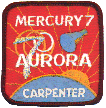 Mercury 7 patch It should be noted that that it wasn't until Gemini 5 that mission patches were used. This was created much after the actual flight.